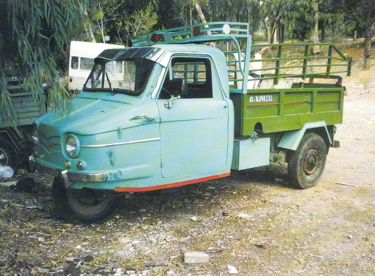 A photograph of a Pan-Car three-wheeler taken in Athens in 1995.